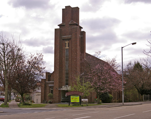 Church in the Orchard, Old Park Ridings, London N21 Church in the Orchard on the corner of Old Park Ridings and Park Avenue.